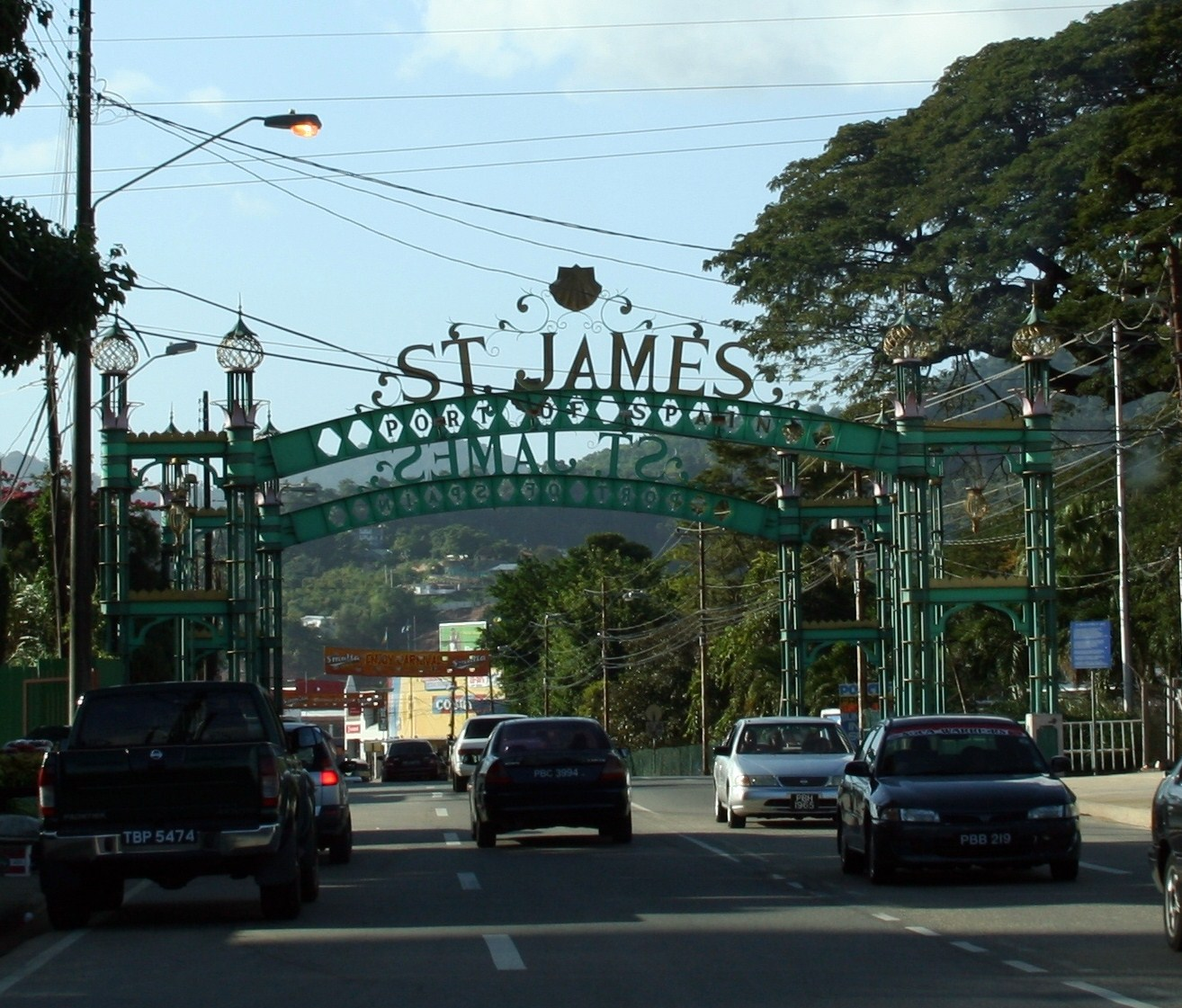 St. James, Port of Spain sign